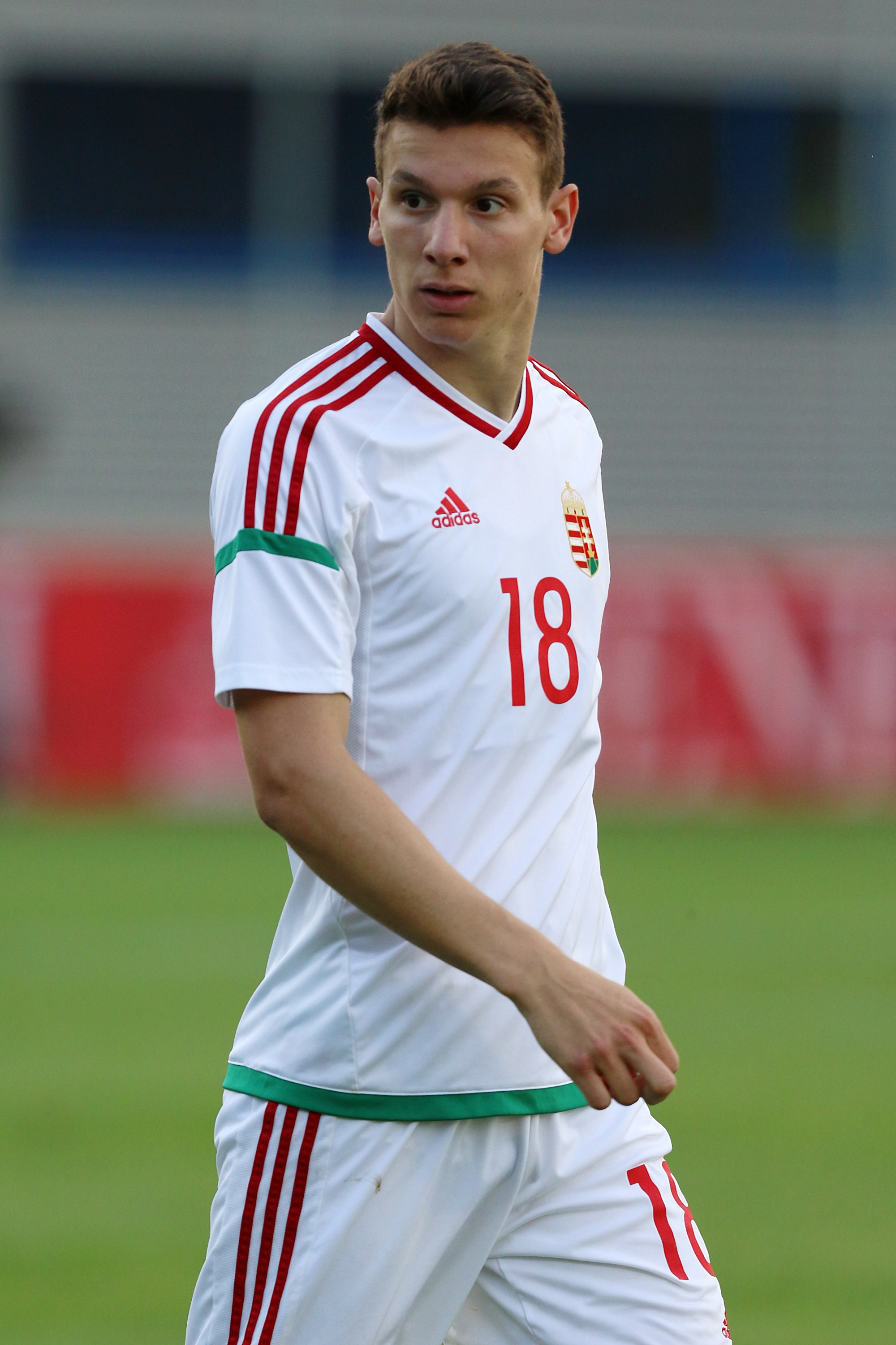 Friendly match: Austria U-21 (red shirts) vs. Hungary U-21 (white shirts) at 12. June 2017 in the Sonnenseestadion in Ritzing 2:1 (1:1) – The photo shows Bence Szabó (Puskás Akadémia FC)